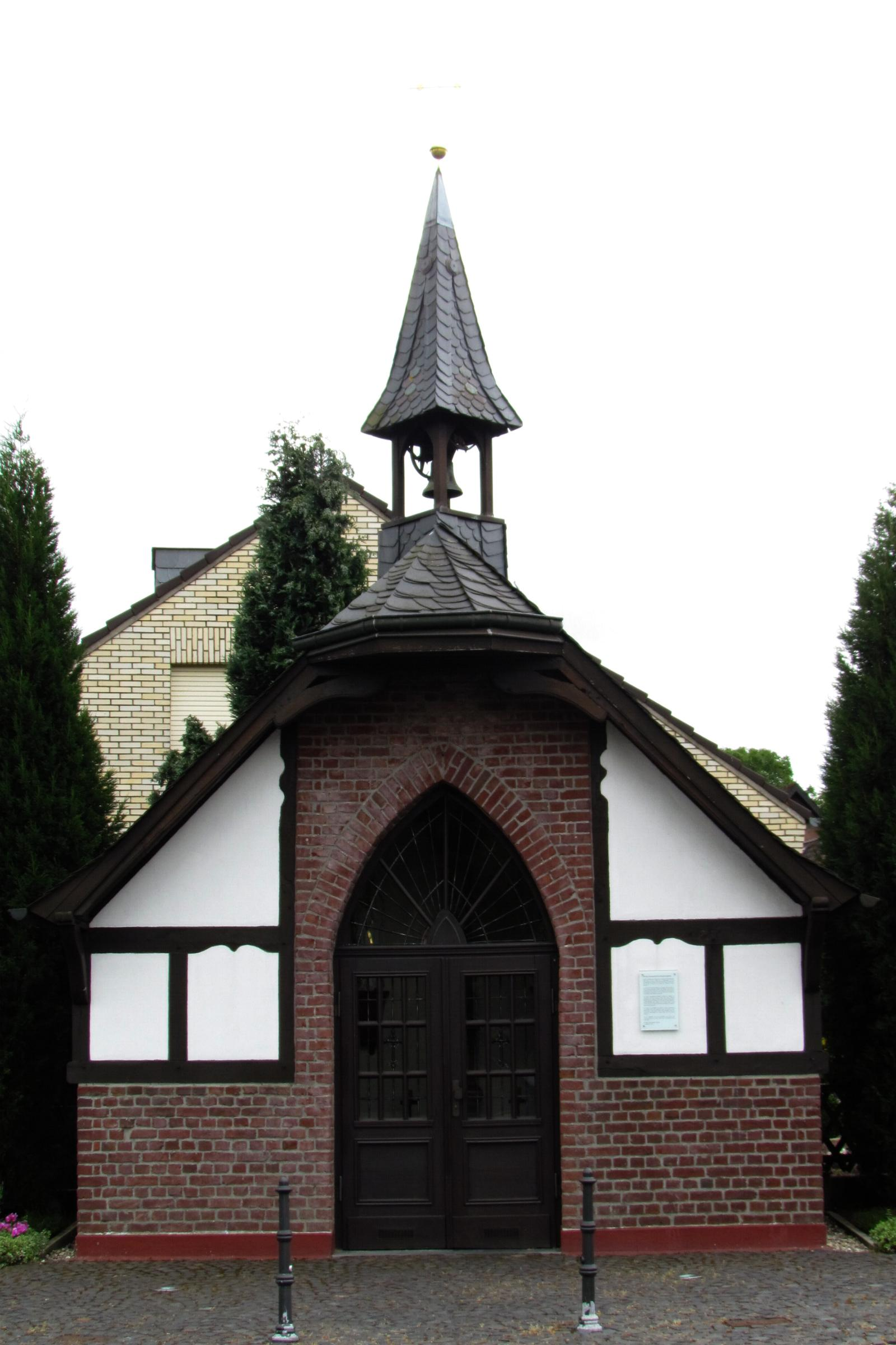 This is a photograph of an architectural monument.It is on the list of cultural monuments of Korschenbroich